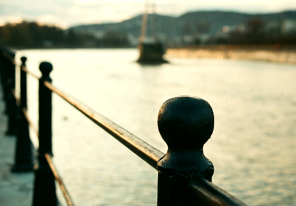 Somes river, Cluj city. February 2008, Canon EOS 5.